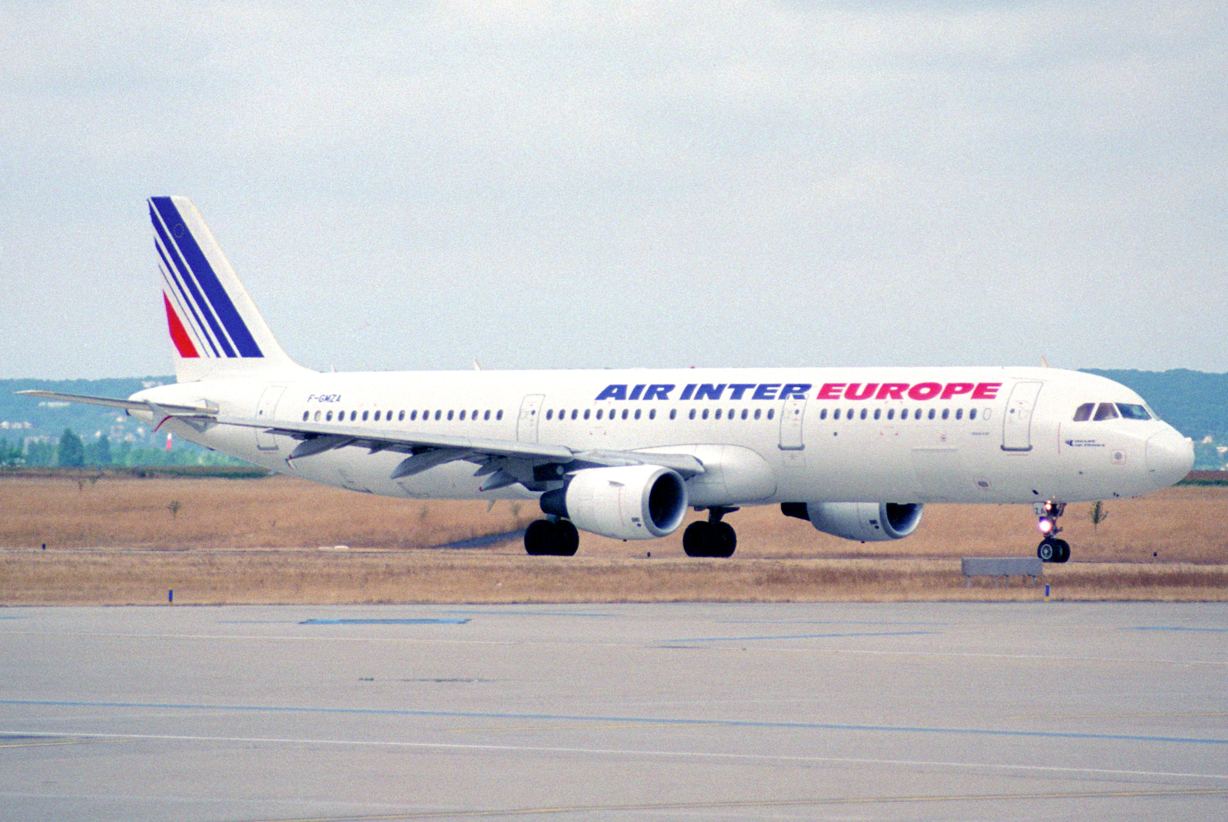 Air Inter Airbus A321-111; F-GMZA@ORY;06.08.1996